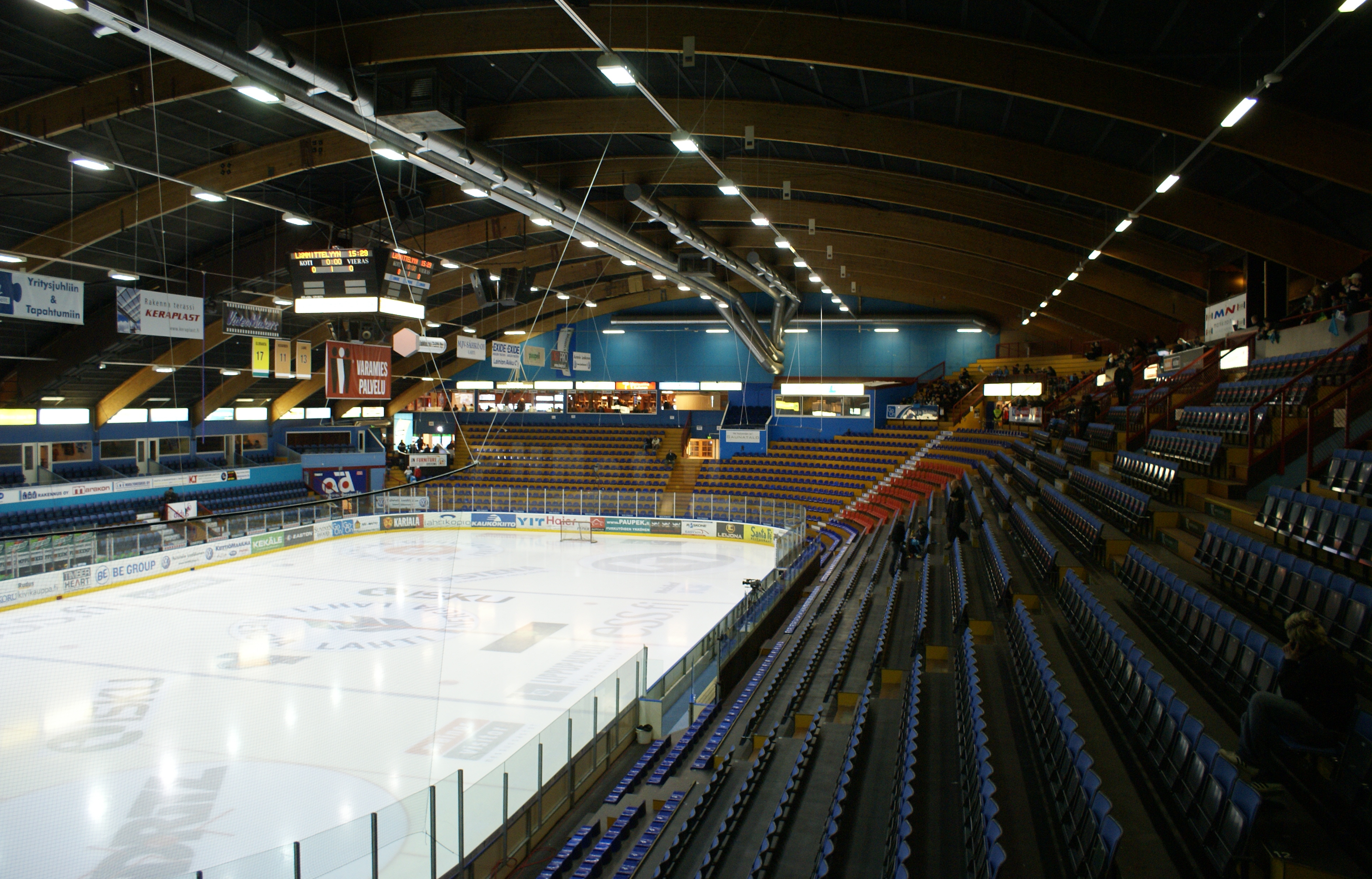 An interior shot of Isku Areena, an ice hockey arena in Lahti, Finland.